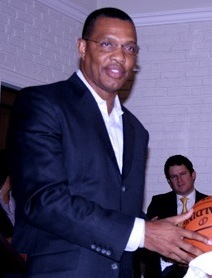 Phoenix Suns head coach Alvin Gentry at the US consulate in Monterrey This file has been extracted from another file: Alvin Gentry Monterrey Rec 03.JPG